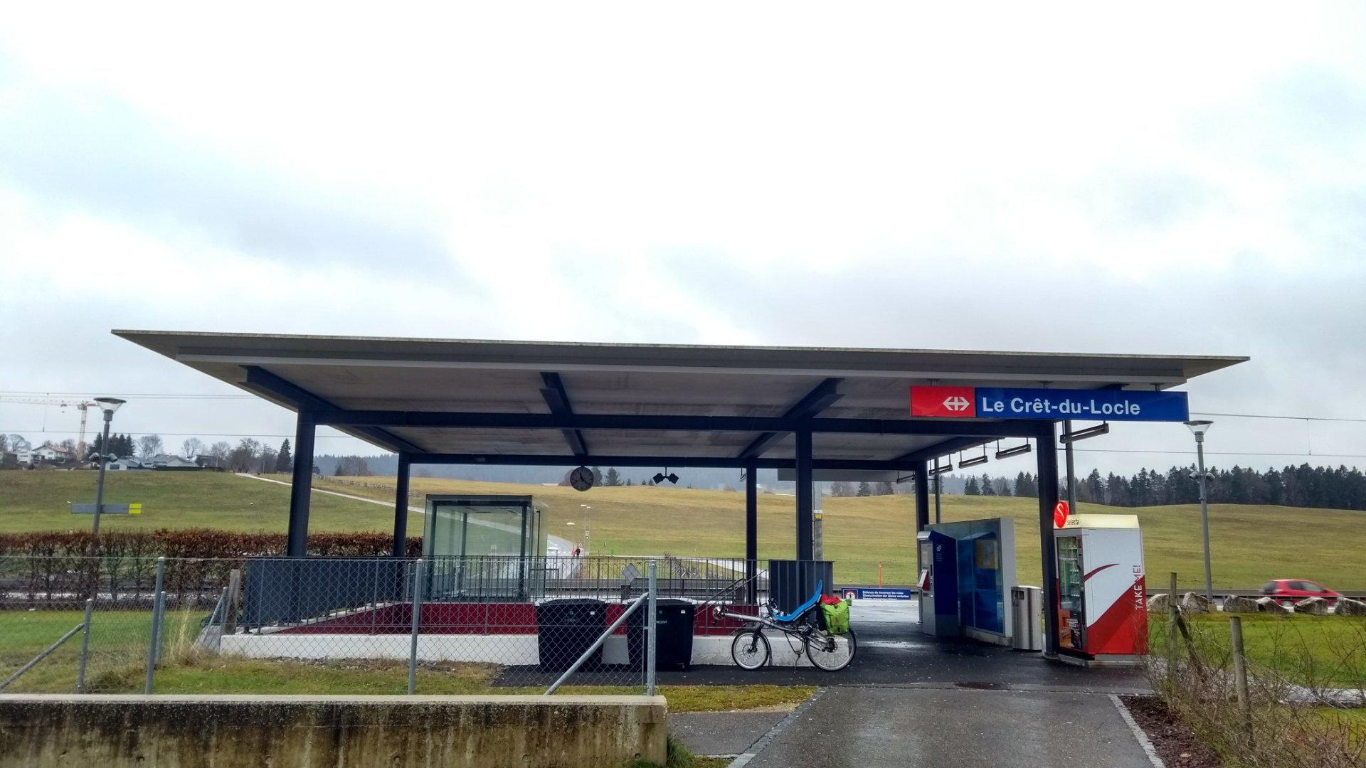 Le Crêt-du-Locle railway station in La Chaux-de-Fonds, Switzerland.